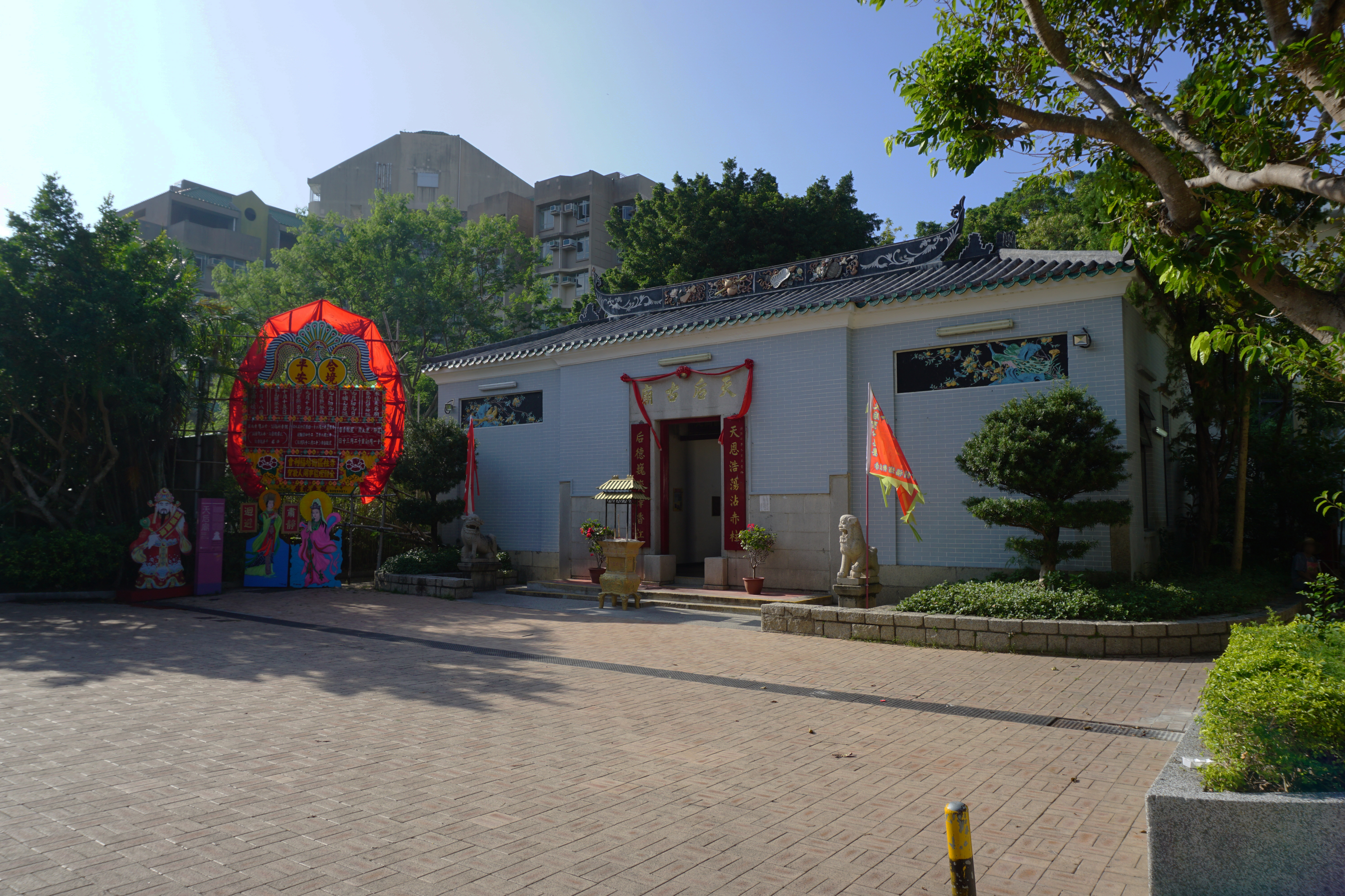 Tin Hau Temple in Stanley, Hong Kong.